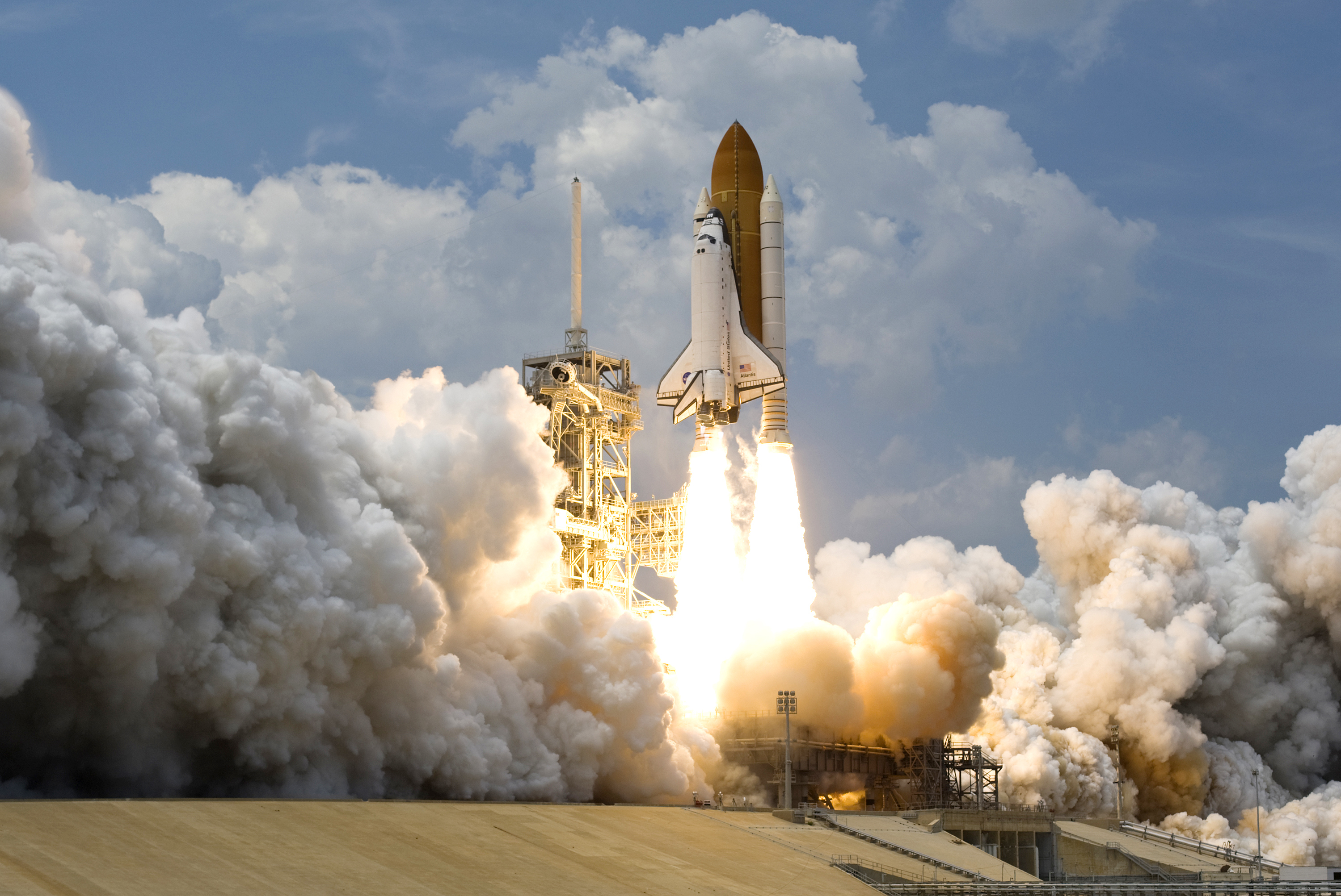 Original caption from Nasa: "CAPE CANAVERAL, Fla. – Sandwiched by billowing clouds above and smoke and steam clouds below, space shuttle Atlantis hurtles past the lightning mast on top of the fixed service structure on Launch Pad 39A at NASA's Kennedy Space Center in Florida. Atlantis will rendezvous with NASA's Hubble Space Telescope on the STS-125 service mission. Liftoff was on-time at 2:01 p.m. EDT. Atlantis' 11-day flight will include five spacewalks to refurbish and upgrade the telescope with state-of-the-art science instruments that will expand Hubble's capabilities and extend its operational lifespan through at least 2014. The payload includes a Wide Field Camera 3, Fine Guidance Sensor and the Cosmic Origins Spectrograph."